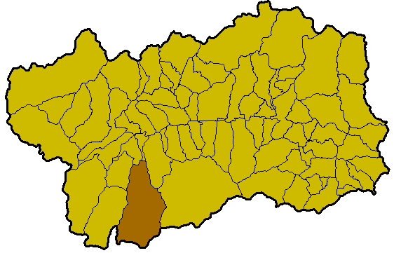 Location map of Valsavarenche within Aosta Valley.